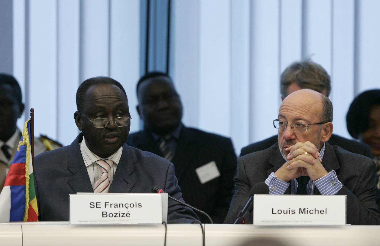 Louis Michel, European Commissioner for Development Aid and François Bozize, President of the Central African Republic during a conference in Brussel about Aid.